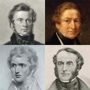 Clockwise from top left: John Bright, Robert Peel, Lord George Bentinck and Lord Stanley in the late 1830s or early and mid 1840s.